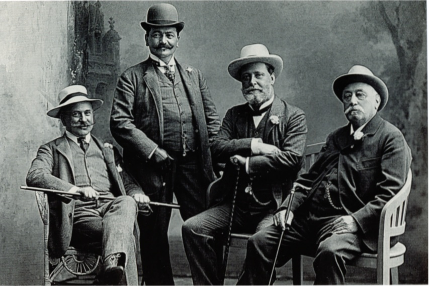 The austrian politician and former major of Vienna Karl Lueger (2nd from right) with other politicians of the Christian Sozial Party